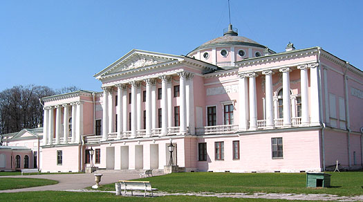 Ostankino Palace in Moscow (18th century).